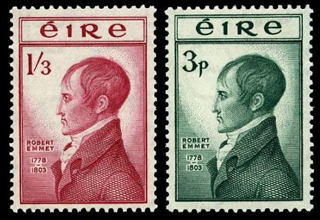 Irish postage stamps issued in 1953 honouring Robert Emmet.